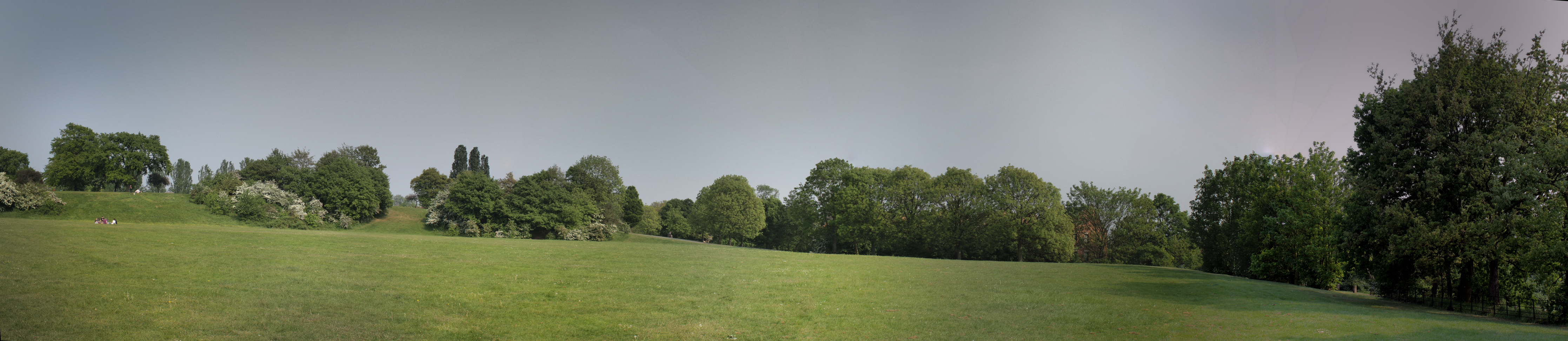 Mountsfield Park in Lewisham Borough, London